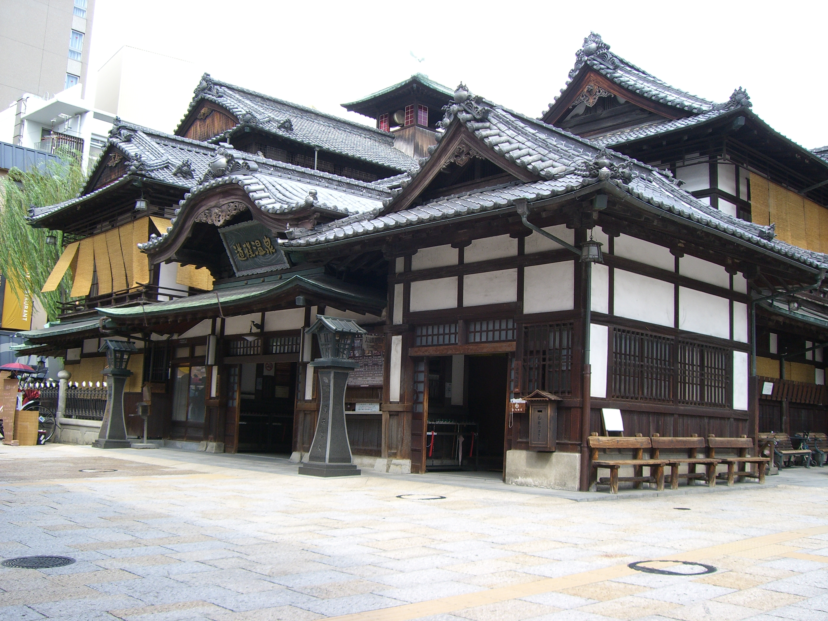 "Dogo Hot Spring (hot springs main building)" A proud symbol of the Dogo Onsen Hot Springs resort area and a vestige of bygone days, this 3-tiered "Sansoro" style roof wooden building was completed in 1894 and , it was designated as an important cultural asset, the first hot springs facility to obtain this honor in Japan.